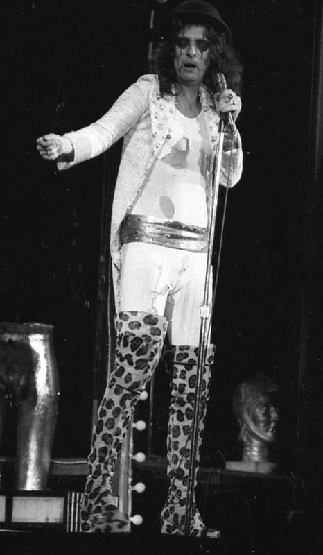 Alice Cooper live at the Carolina Coliseum in Columbia, South Carolina in 1973.